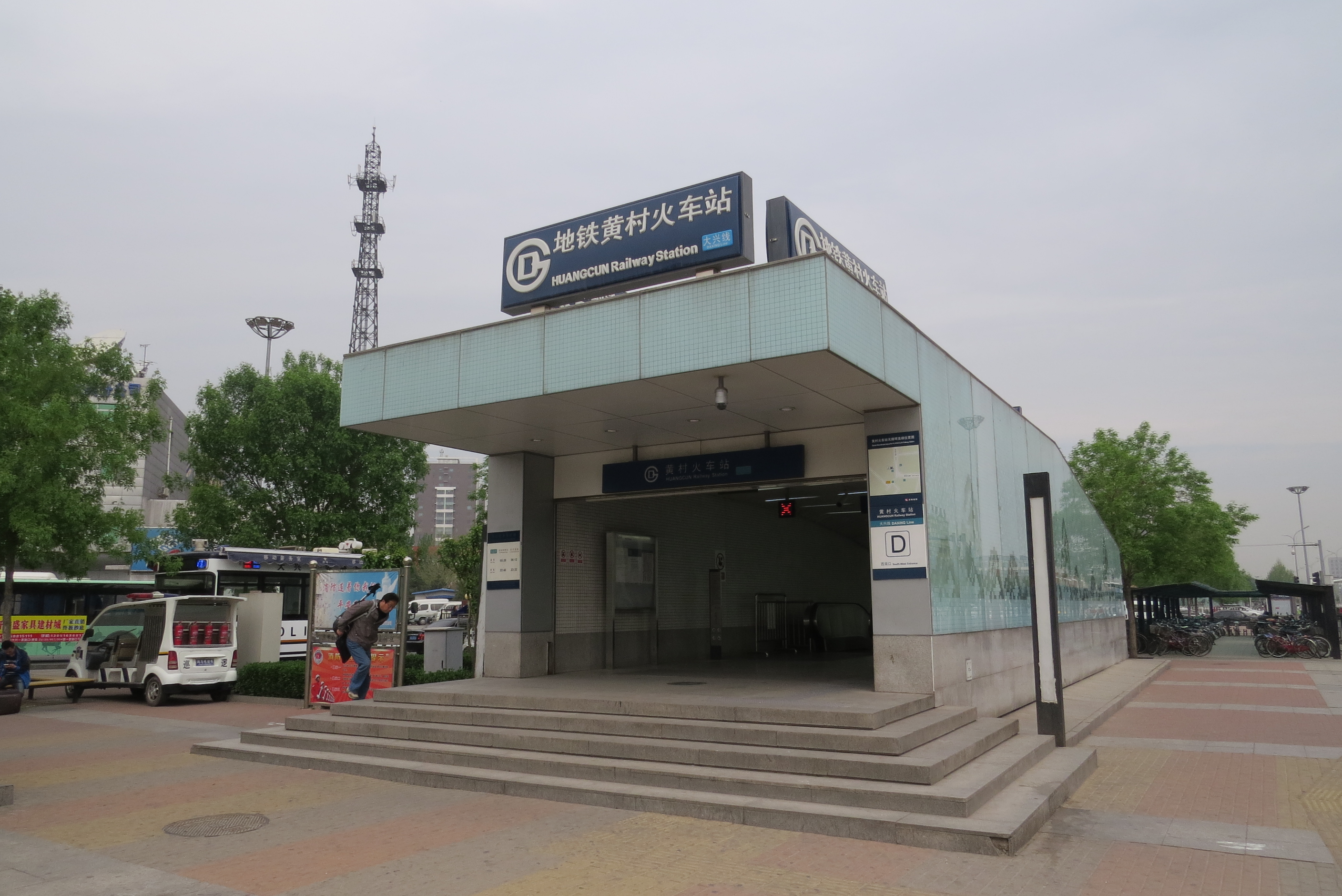 This exit is in the closest proximity to Huangcun Railway Station.